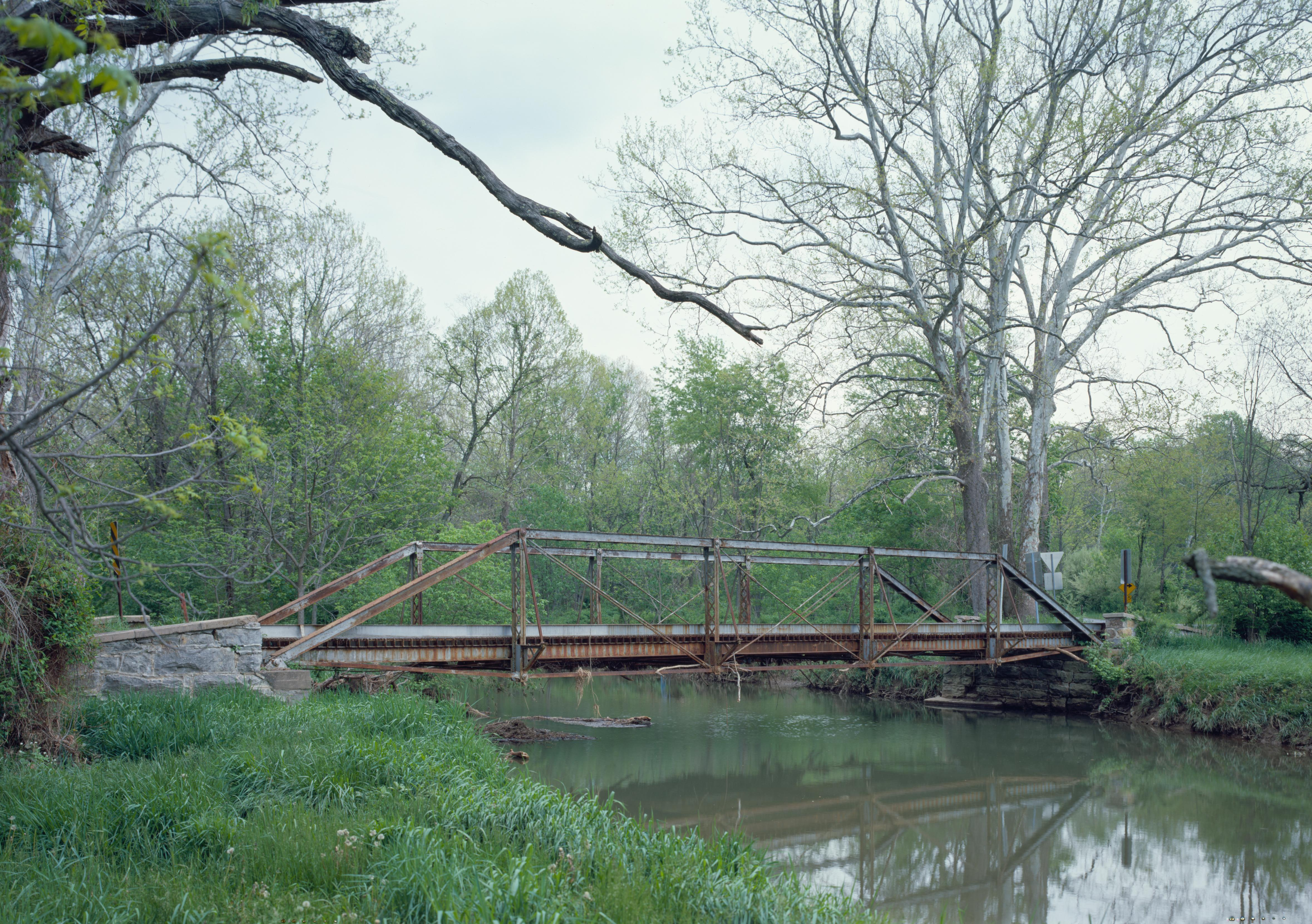 Southern (downstream) side of the Yeakle's Mill Bridge, which carries Legislative Route 28042 over Little Cove Creek in Warren Township, Franklin County, Pennsylvania, United States. Built in 1888, this Pratt pony truss bridge is listed on the National Register of Historic Places.